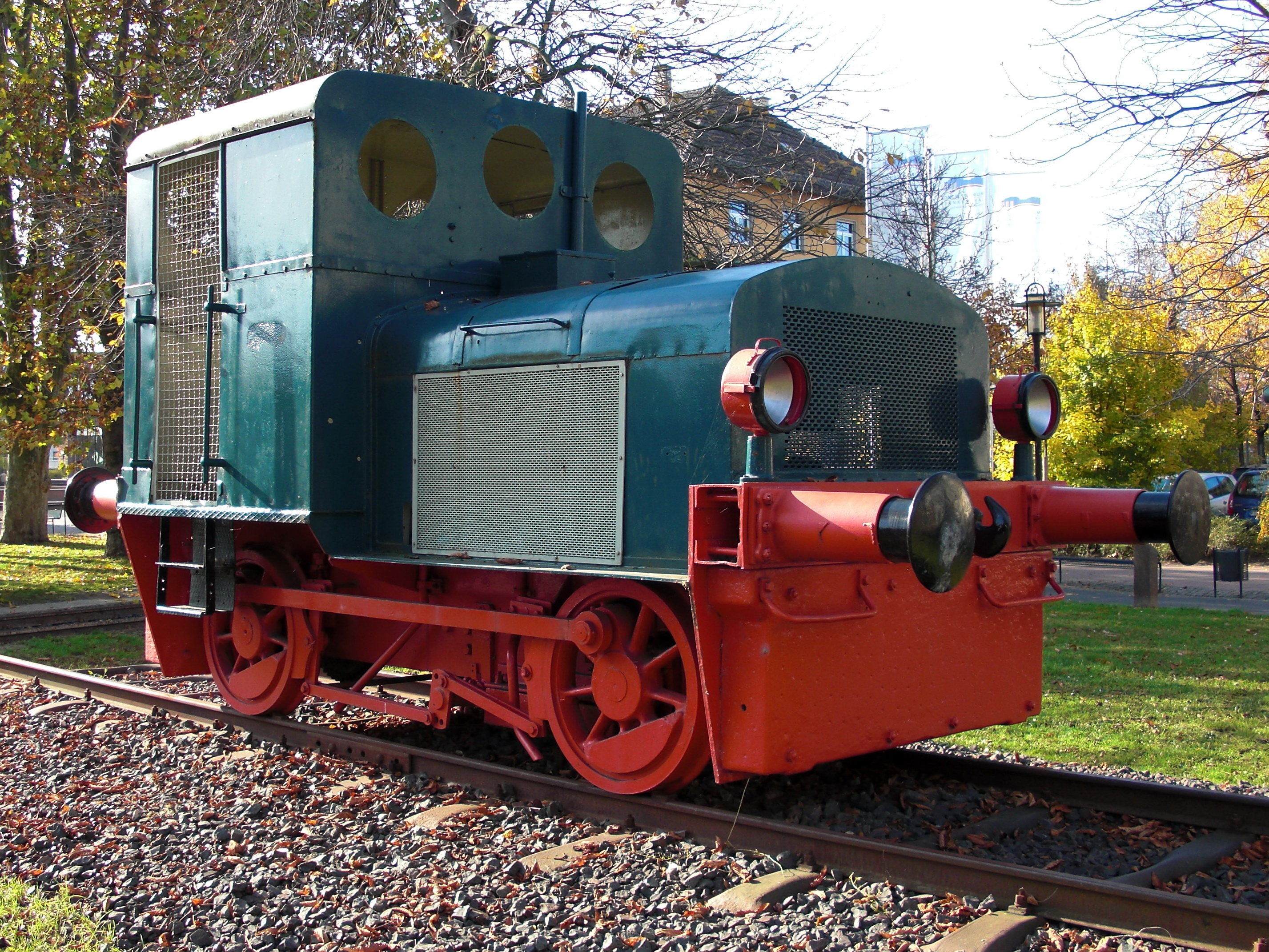 Shunting locomotive Deutz OMZ 122 R of the earlier sugar factory in Frankenthal, from 1843 to 1943 one of the largest refineries in Germany. Owing to numerous donations the locomotive was restored in the year 2000 and set up in front of the former work area.